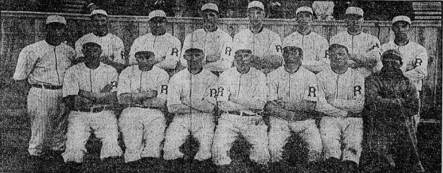 The team photo of the Richmond Rebels baseball club before their opening day game against Washington.